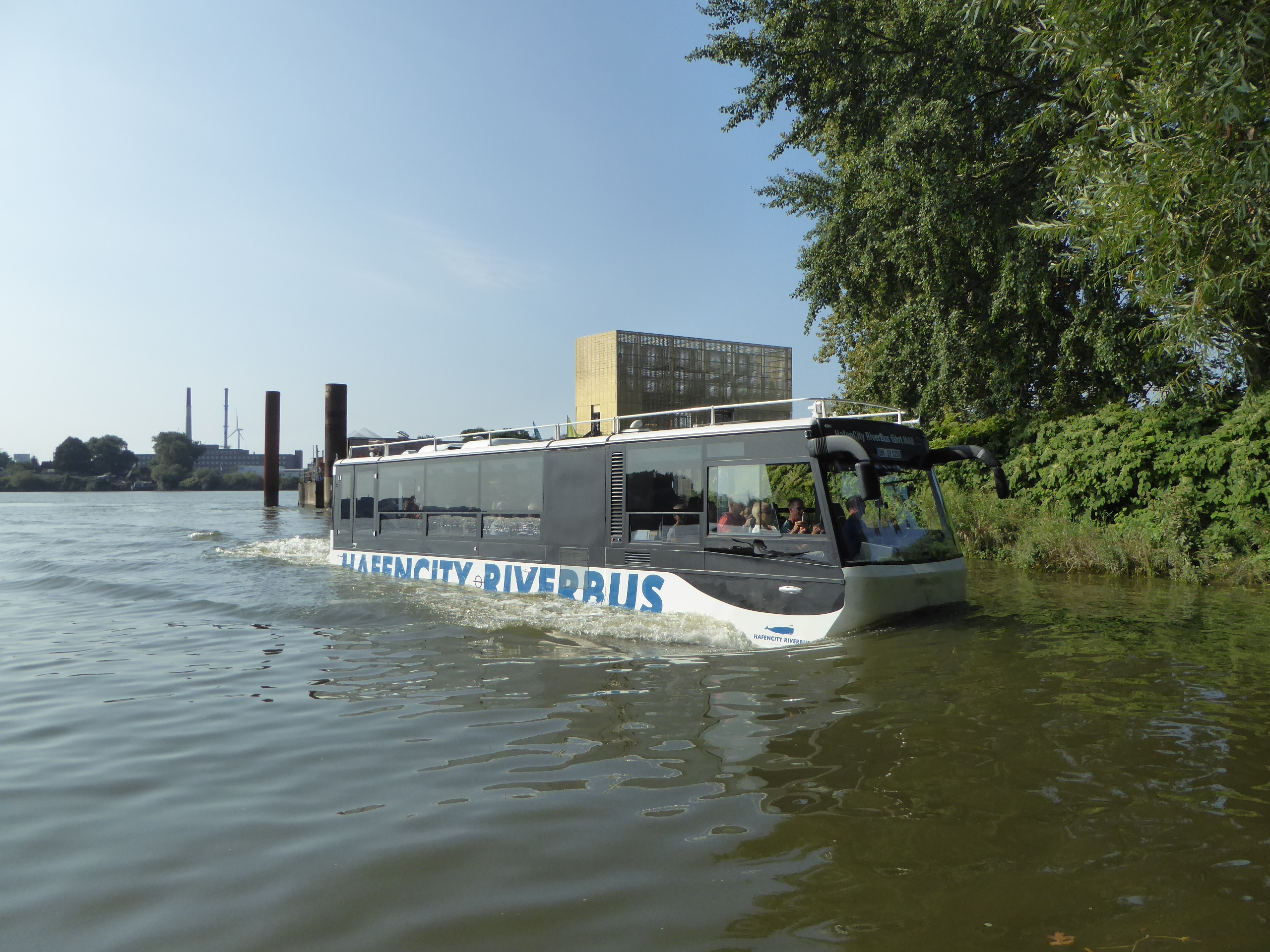 HafenCity RiverBus is an amphibious vehicle which provide a combination of sightseeing in Hamburg and a boat trip on the river Elbe. The bus comes up from the water at Entenwerder.